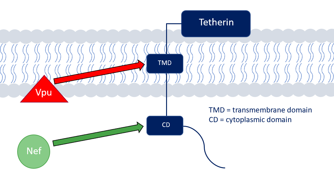 Nef and Vpu are viral proteins, from SIV and HIV respectively, that work to deactivate the anti-viral tetherin protein. Nef interacts with the cytoplasmic domain due to the presence of the additional 33 amino acids found in primates present in the cytoplasmic domain. This however is missing in human tetherin and so HIV instead uses Vpu to deactivate tetherin which interacts with the conserved transmembrane domain.